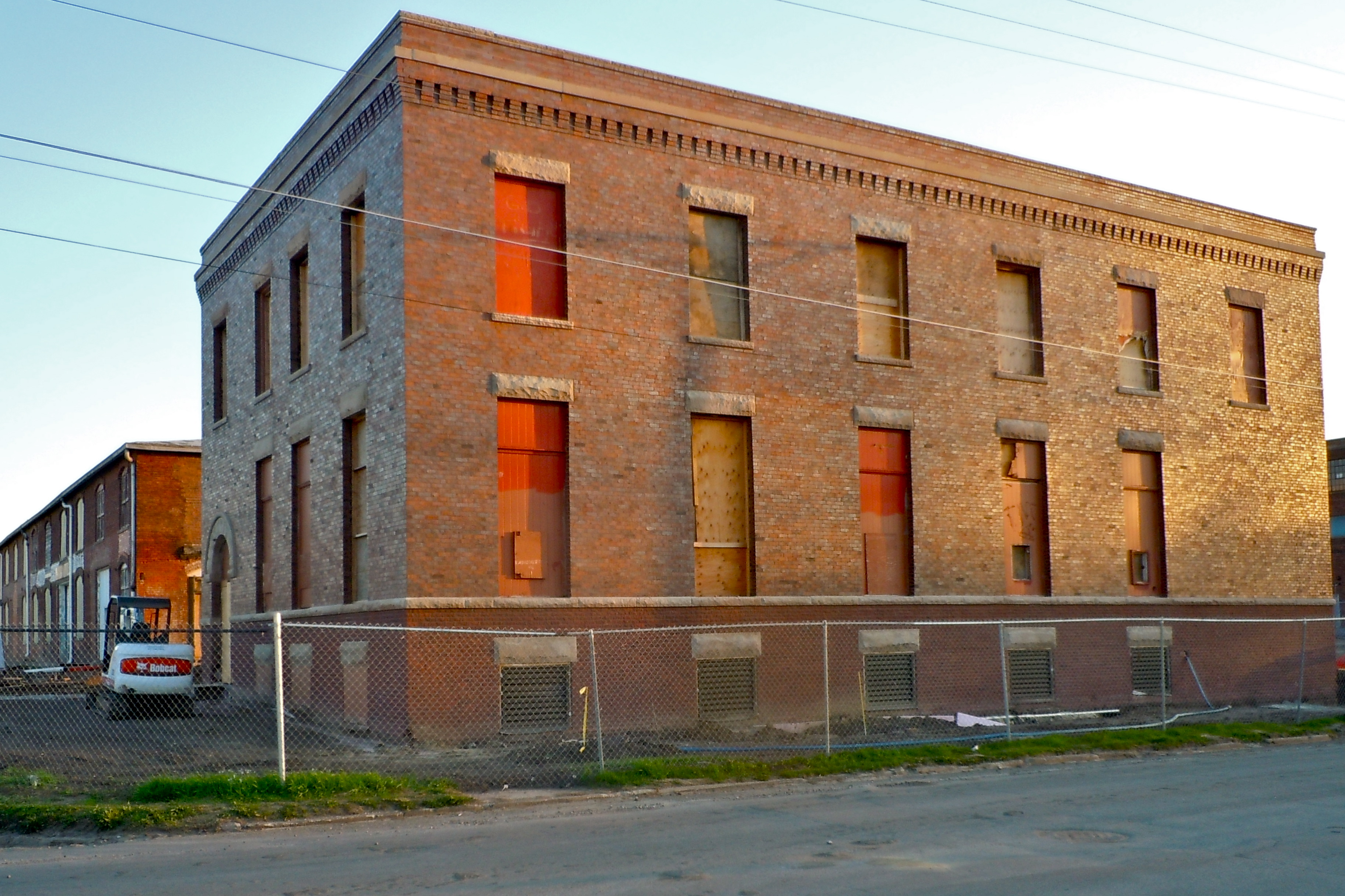 Spaulding Manufacturing Company on the NRHP since December 21, 1978. Two or three buildings at 500-610 4th Ave., 827-829 Spring St., Grinnell, Iowa. In the early stages of being transformed into a Transportation Museum.